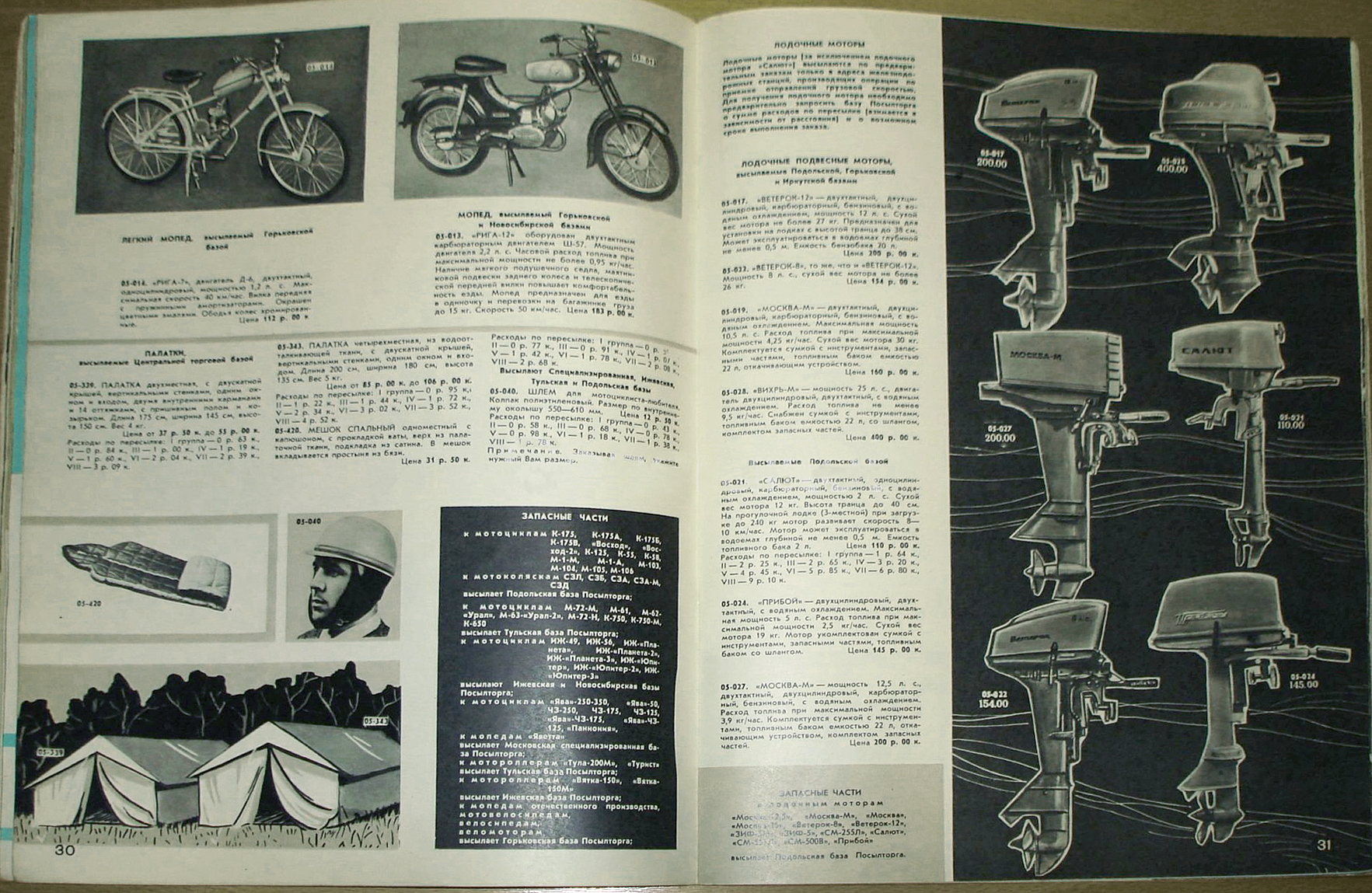 USSR “Posyltorg” mail-order catalog pages, 1974